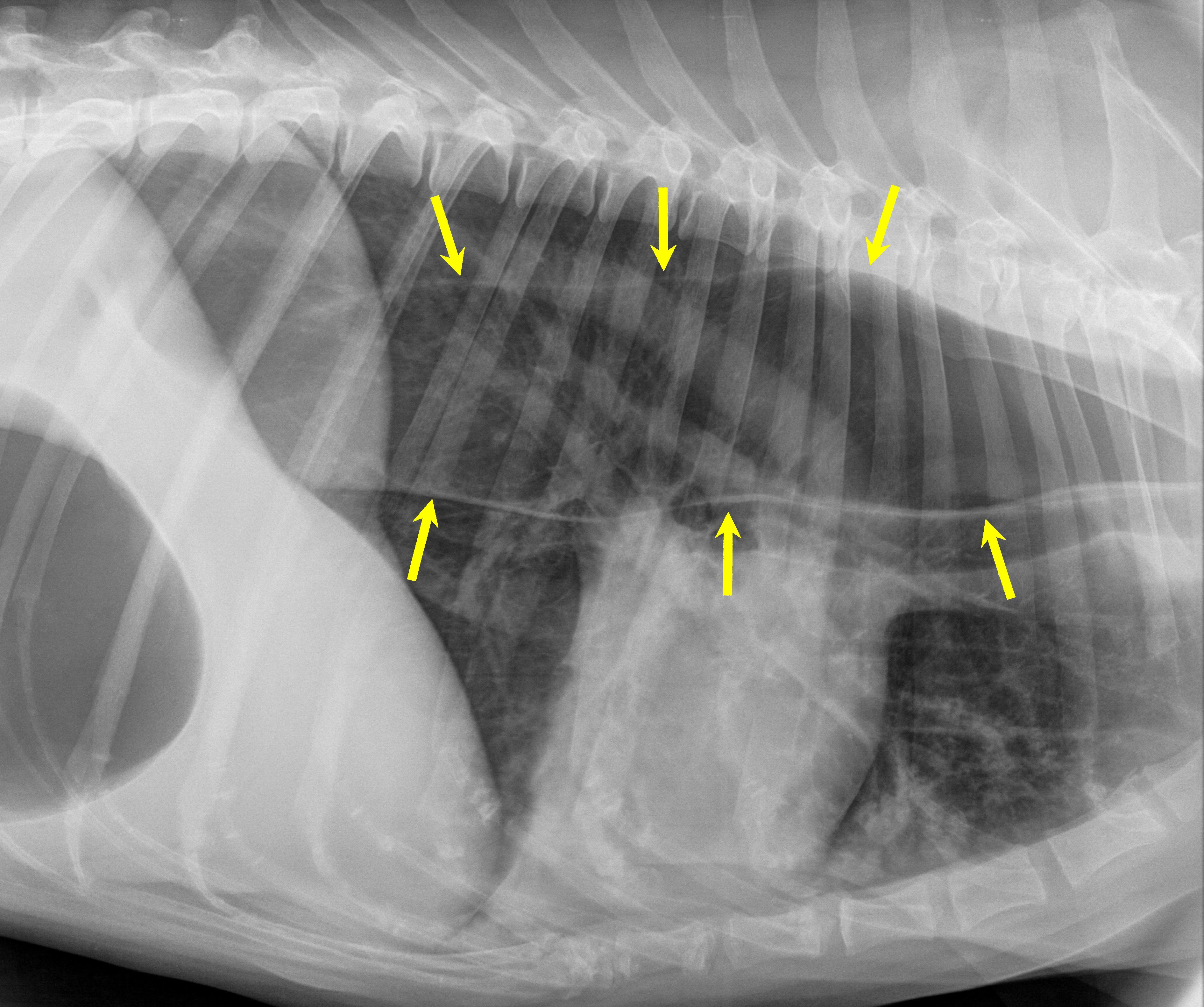 X-ray of an idiopathic megaesophagus in an Irish Setter. Note the ventral displacement of the heart, the dorsal rim of the oesophagus and the increased contrast of both the dorsal tracheal rim and the lung vessels. Signs of aspiration pneumaonia are present near the sternum, which was fatal in this case.